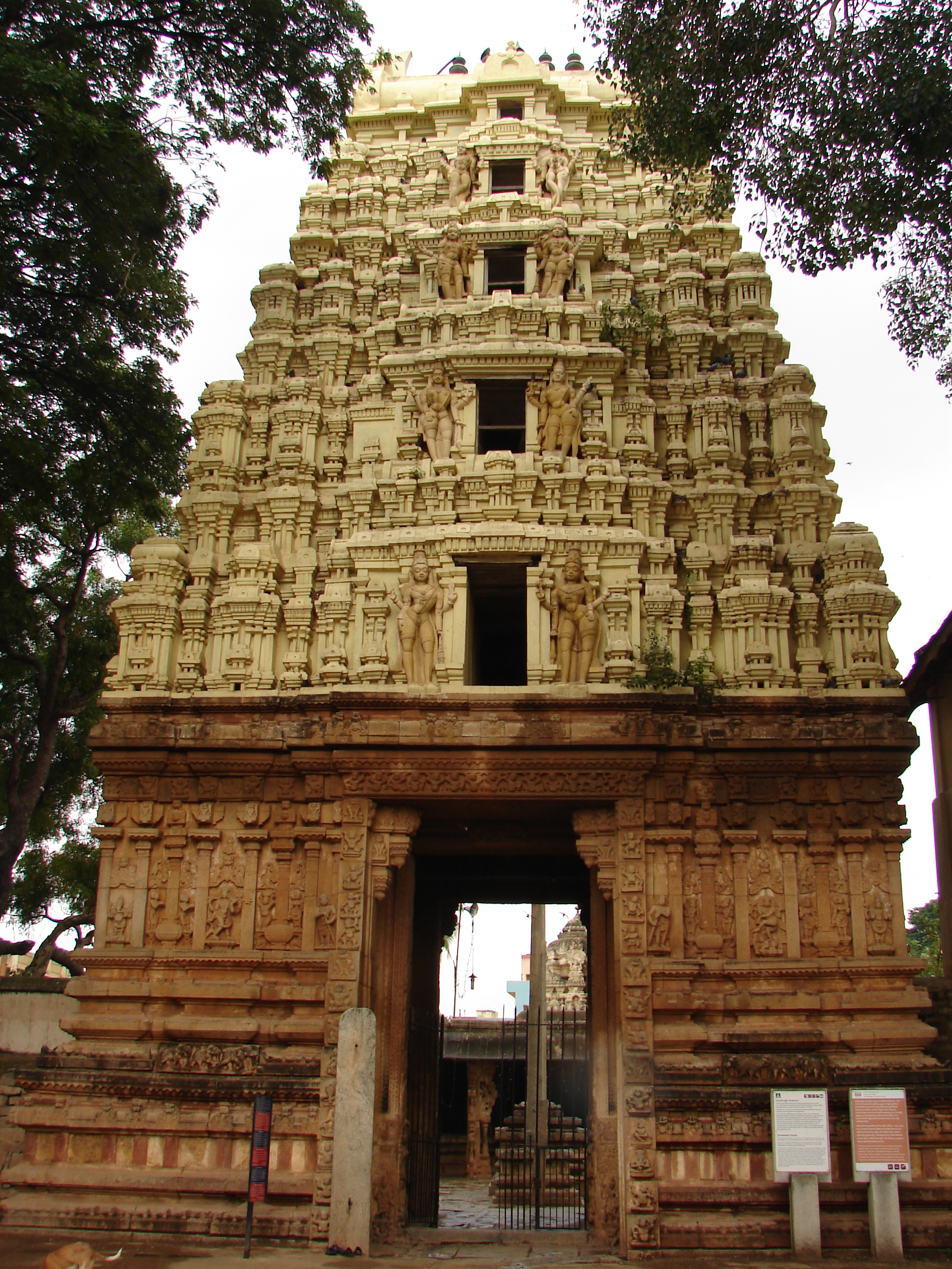 This photograph was taken by me at the entrance of the Someshvara temple (also spelt Someshwara or Somesvara) in Kolar, Kolar district, Karnataka state, India. The Someshvara temple is an ornate example of early 14th century architecture of the Vijayanagara Empire. The style of the gopura (tower over entrance) is Dravidian.